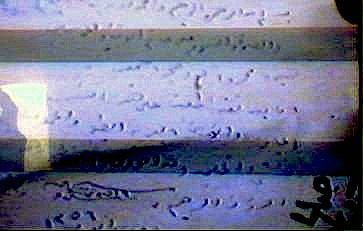 King Abdullah II of Jordan's signature on a certificate of authenticity on the Pedigree Rababa.